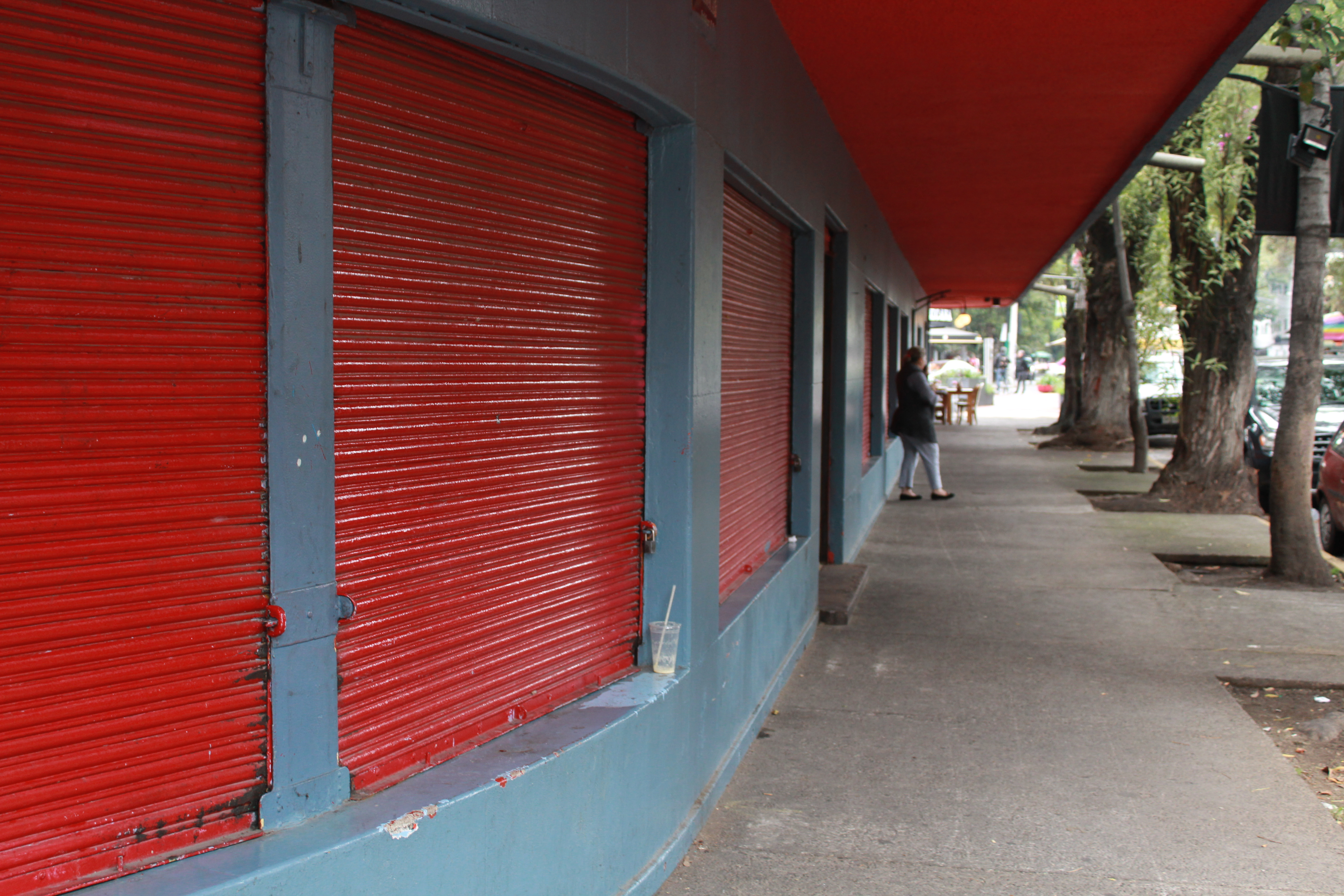 Exterior hallway with closed stores in Michoacán Market in colonia Condesa, Mexico City.